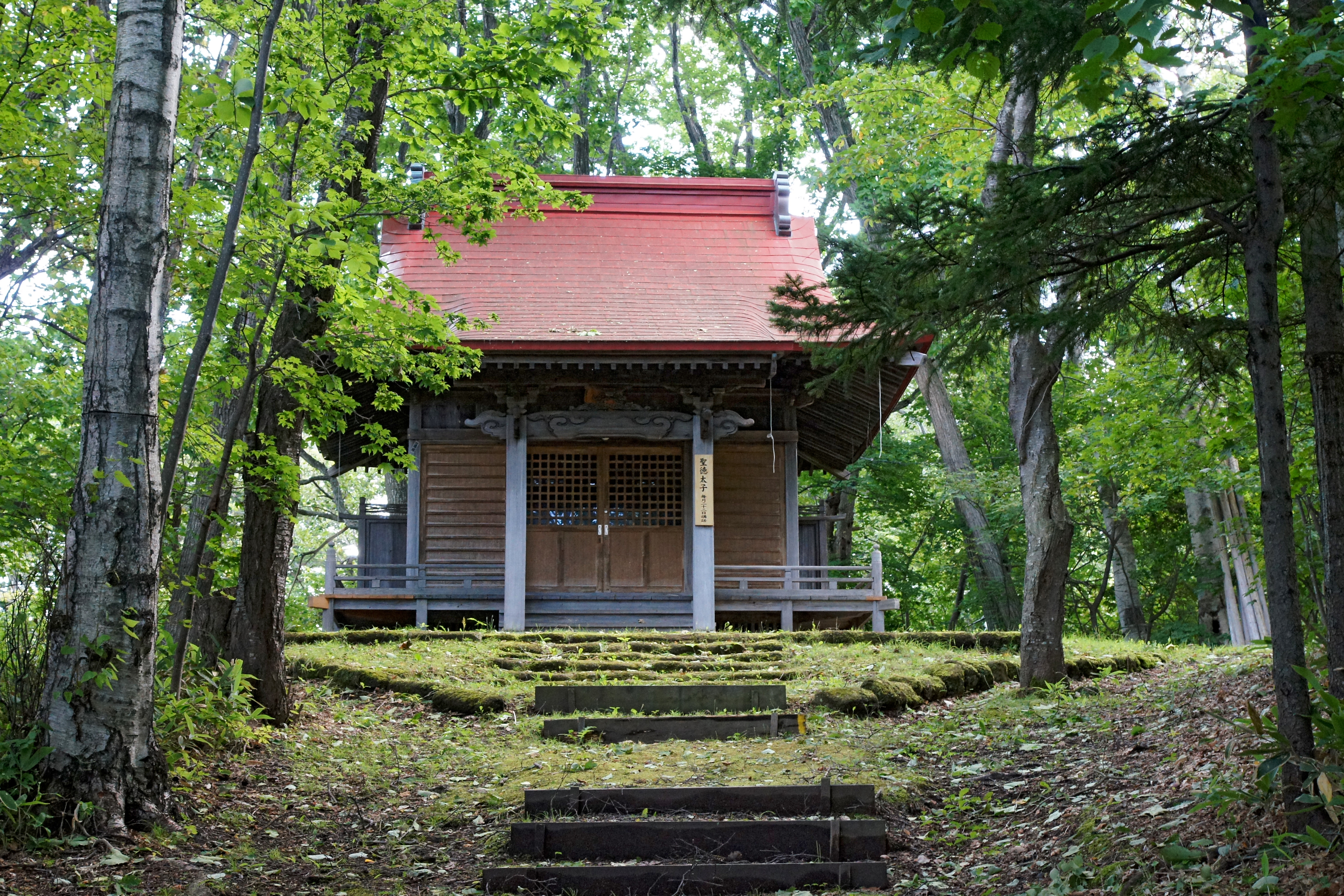 Abashiri-jinja in Abashiri, Hokkaido prefecture, Japan